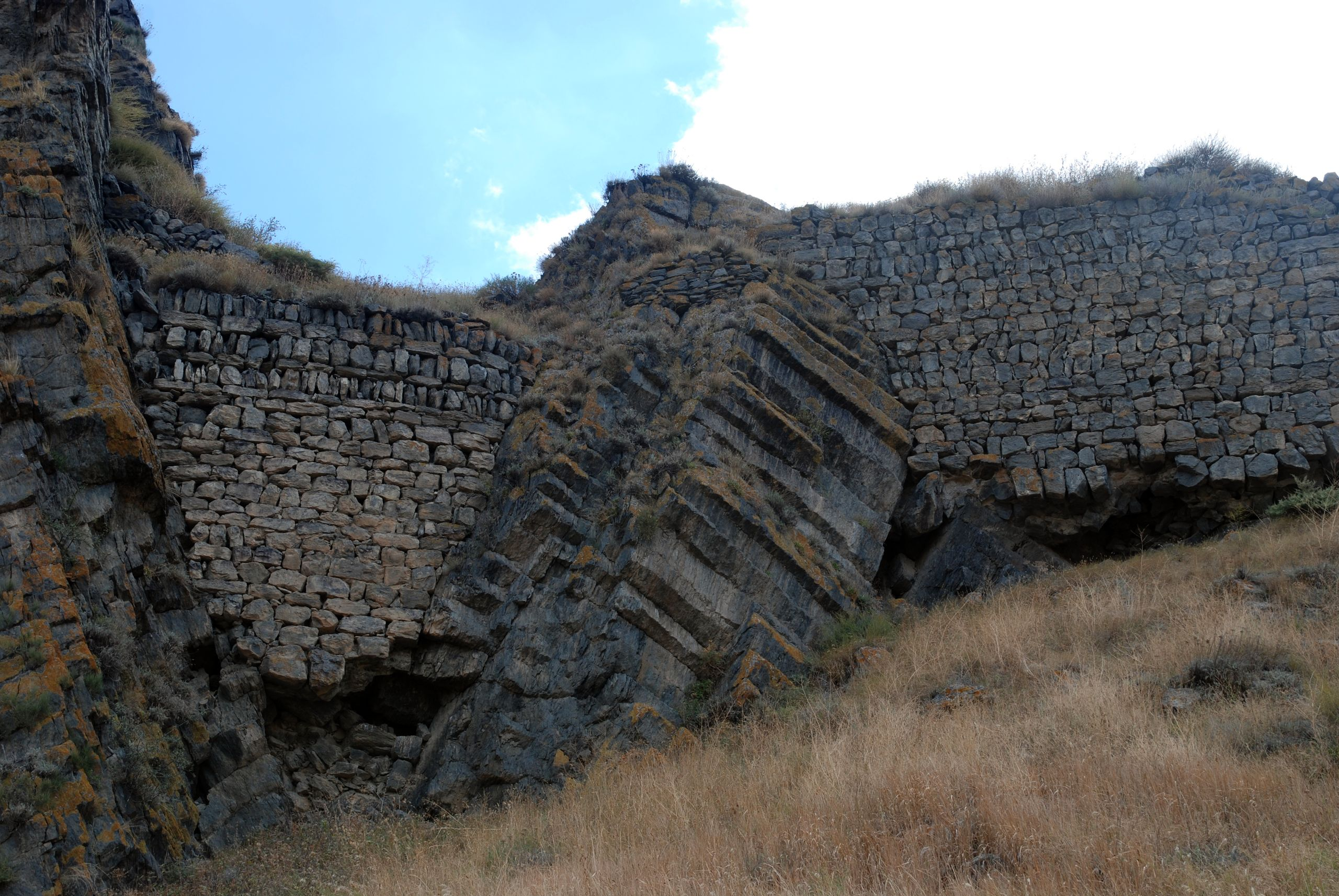 Vorotnaberd, castle near Vorotan, Syunik province